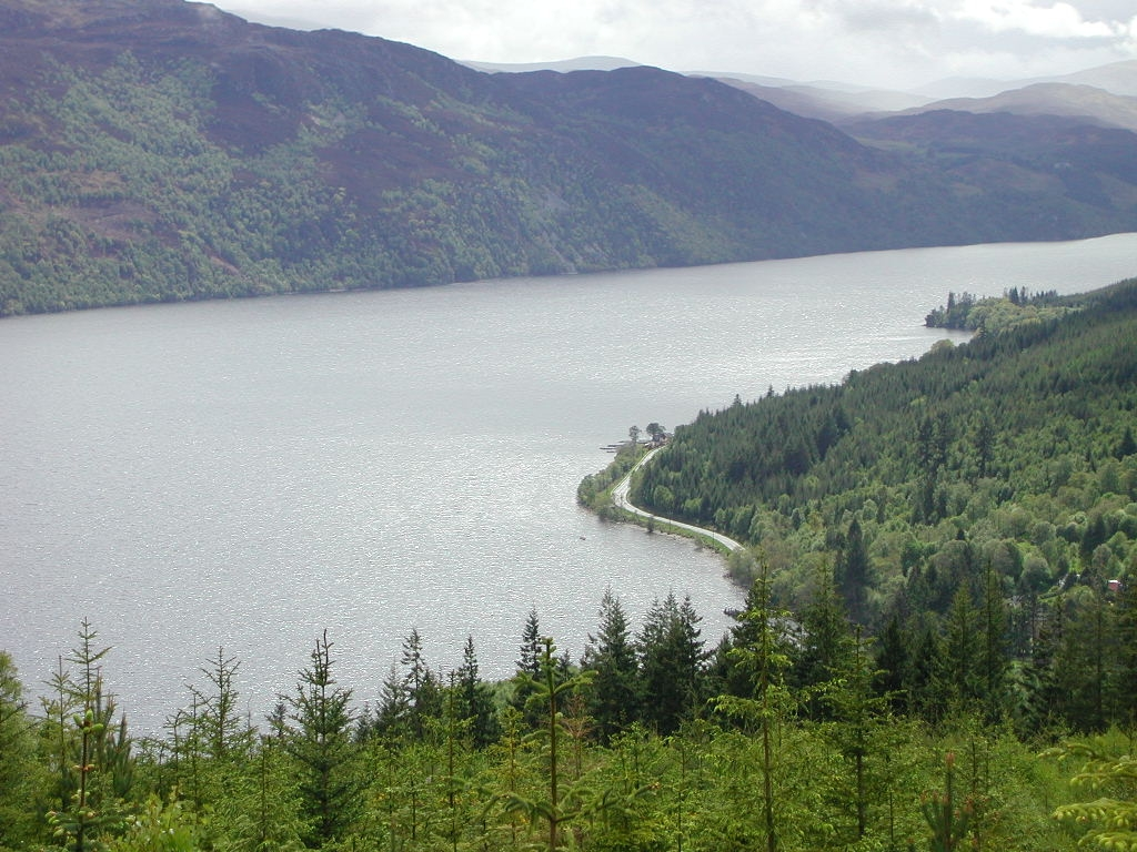 Loch Ness Source: photo uploaded by User:RicciSpeziari. Photographer: Riccardo Speziari